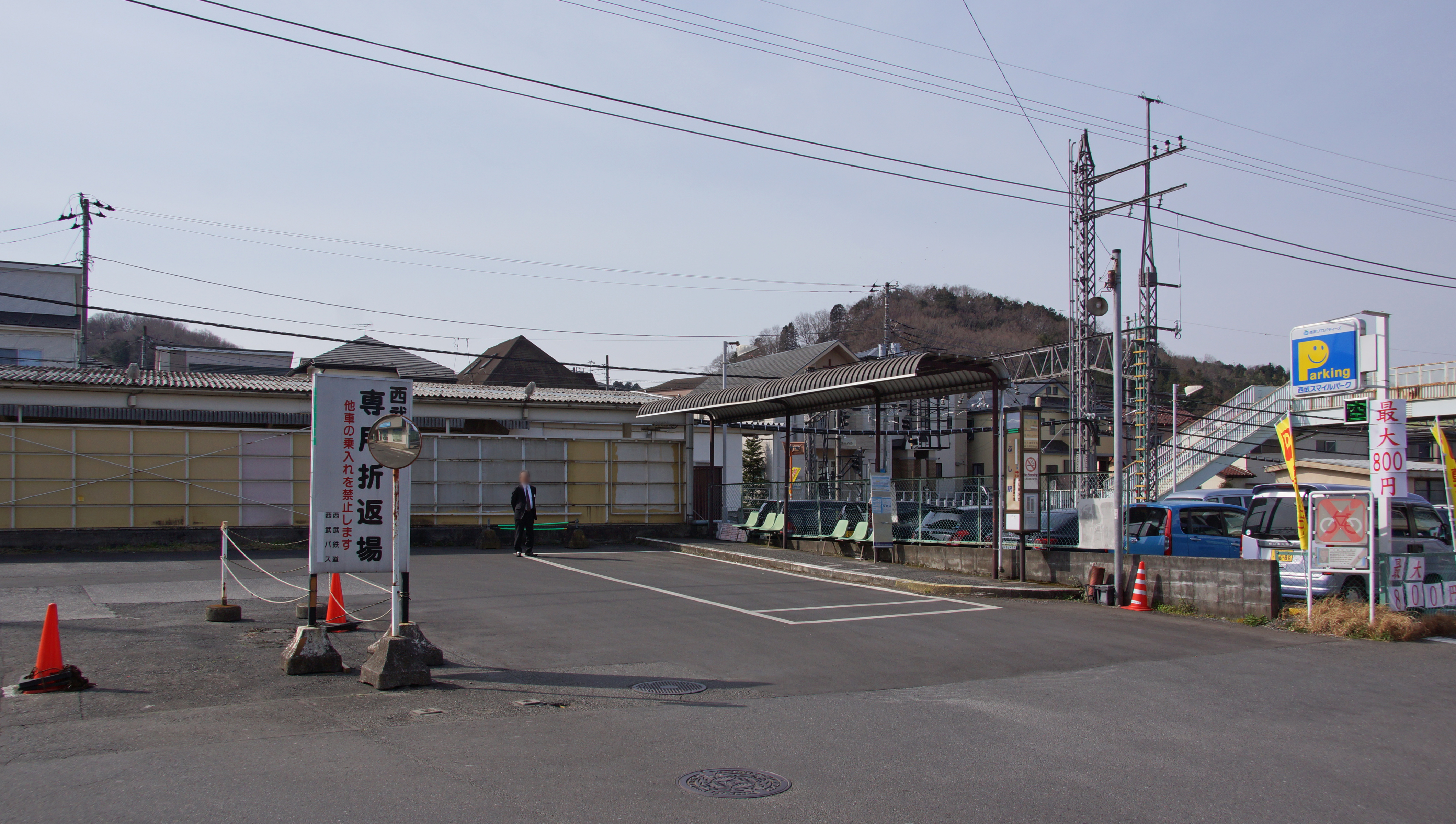 The bus stop on the north side of Bushi Station on the Seibu Ikebukuro Line in Saitama Prefecture, Japan